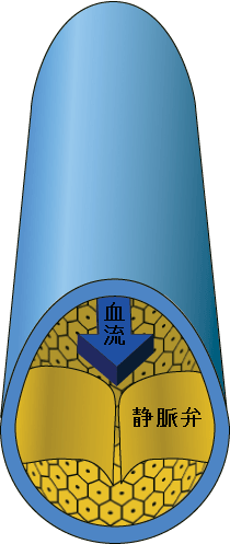 Diagram of a cross section of a vein with valves